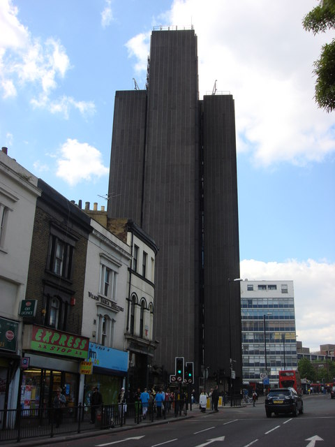 Archway Tower This tower is located at 2 Junction Road, it is 195 feet (59 m) high, built over Archway tube station and completed in 1963. Taken from the A1, Holloway Road Archway_Tower